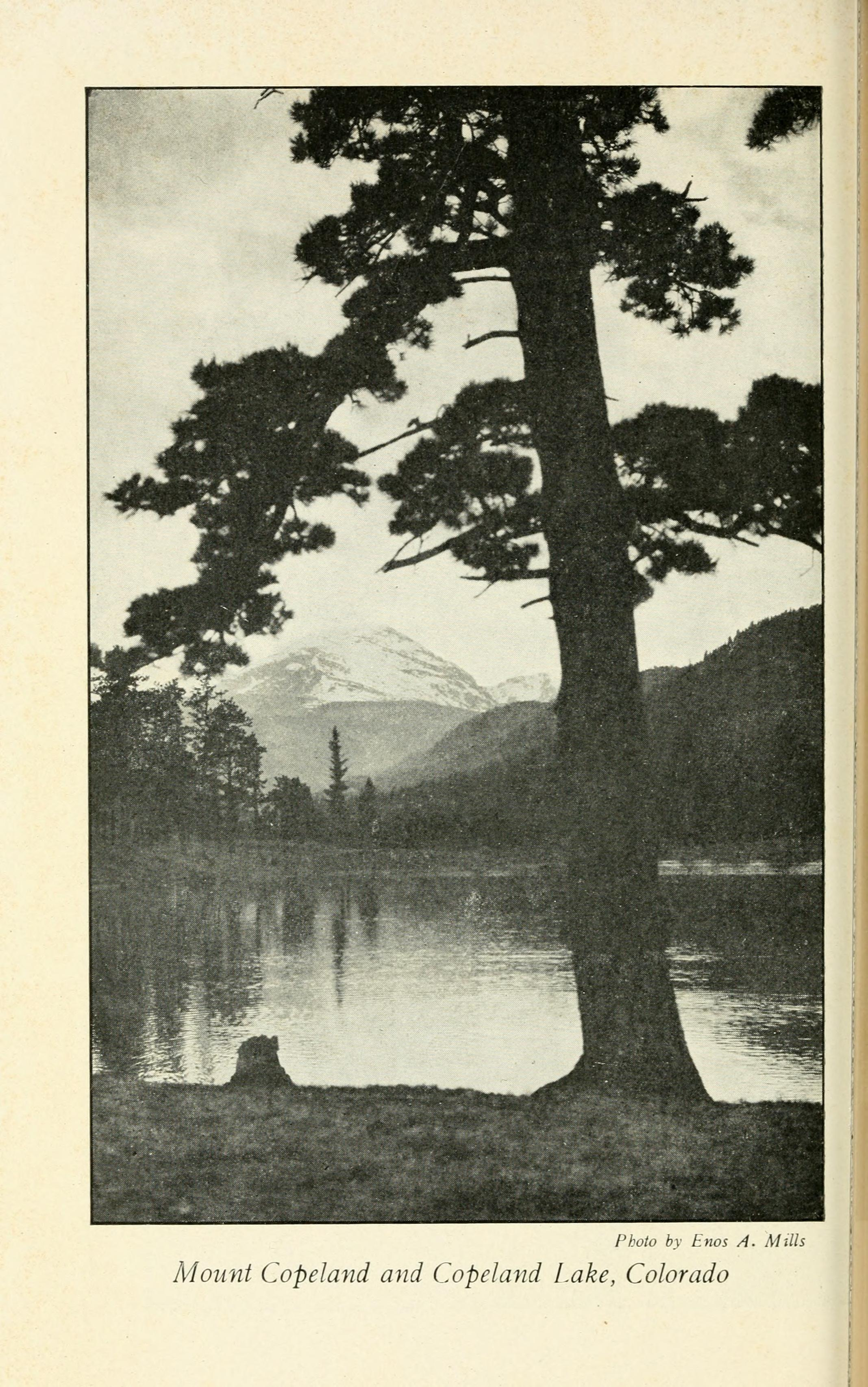 Title: The adventures of a nature guide Year: 1920 (1920s) Authors: Mills, Enos Abijah, 1870-1922 Subjects: Natural history -- Outdoor books; Mountaineering; Rocky Mountains Publisher: Garden City, New York, Doubleday, Page Text Appearing Before Image: ' Text Appearing After Image: Photo bv Enos A. Mills Mount Copeland and Copeland Lake, Colorado